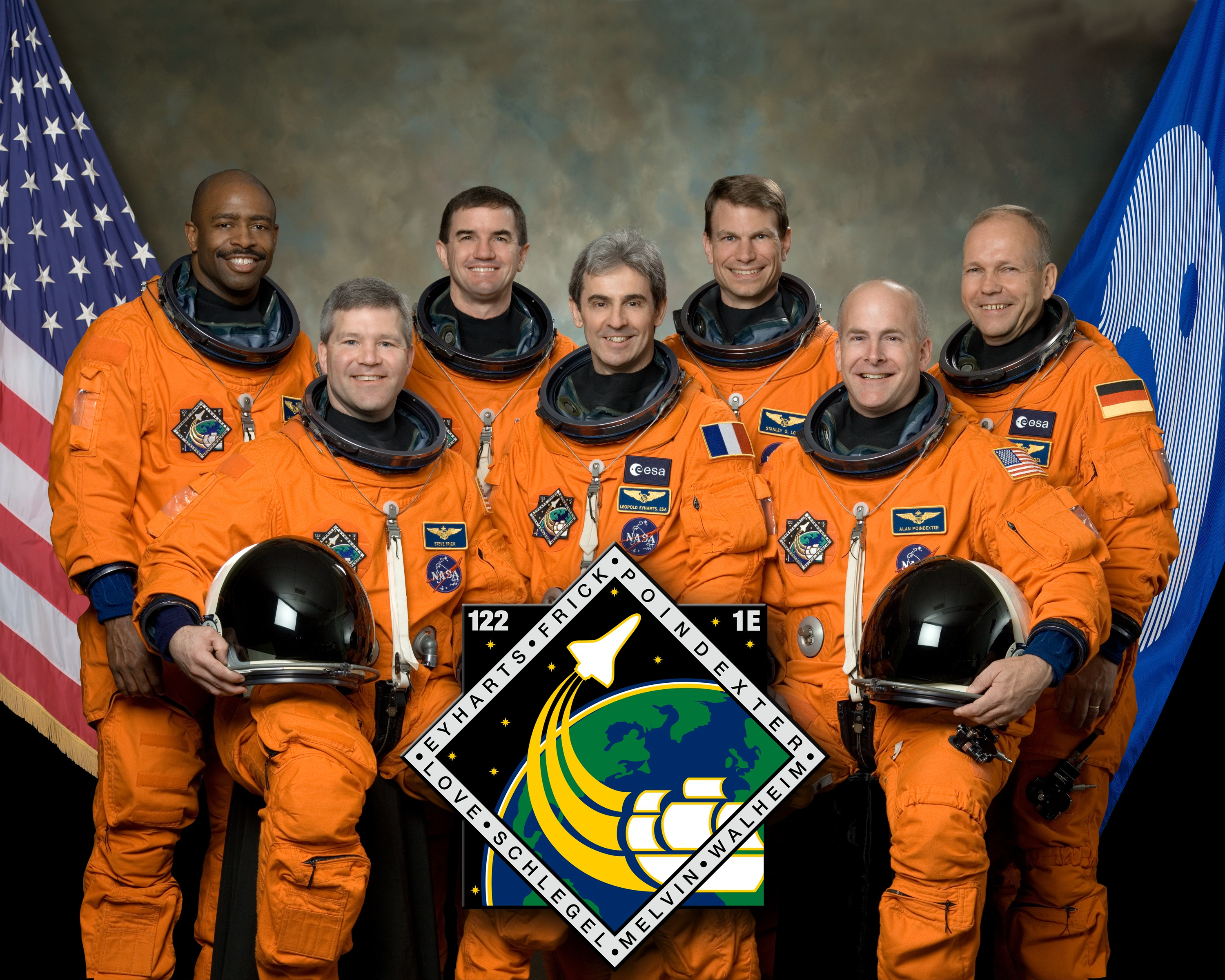 STS122-S-002 (24 April 2007) --- These seven astronauts take a break from training to pose for the STS-122 crew portrait. From the left (front row) are astronauts Stephen N. Frick, commander; European Space Agency's (ESA) Leopold Eyharts; and Alan G. Poindexter, pilot. From the left (back row) are astronauts Leland D. Melvin, Rex J. Walheim, Stanley G. Love and European Space Agency's (ESA) Hans Schlegel, all mission specialists. Eyharts will join Expedition 16 in progress to serve as a flight engineer aboard the International Space Station. The crewmembers are attired in training versions of their shuttle launch and entry suits.